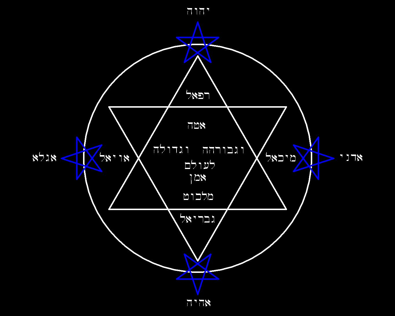 Graphic representation of the Lesser Banishing Ritual of the Pentagram with the text of the Qabalistic Cross, the names of God and the names of the four angels in Hebrew.